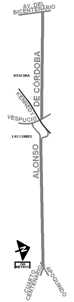 Map of Alonso de Córdova Avenue, in Santiago, Chile.